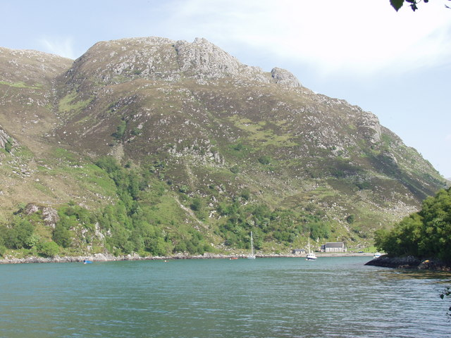 Crags on Cnoc a Bhac Fhalaichte tower over Tarbet Bay. Great view as you approach Tarbet from Loch Nevis.